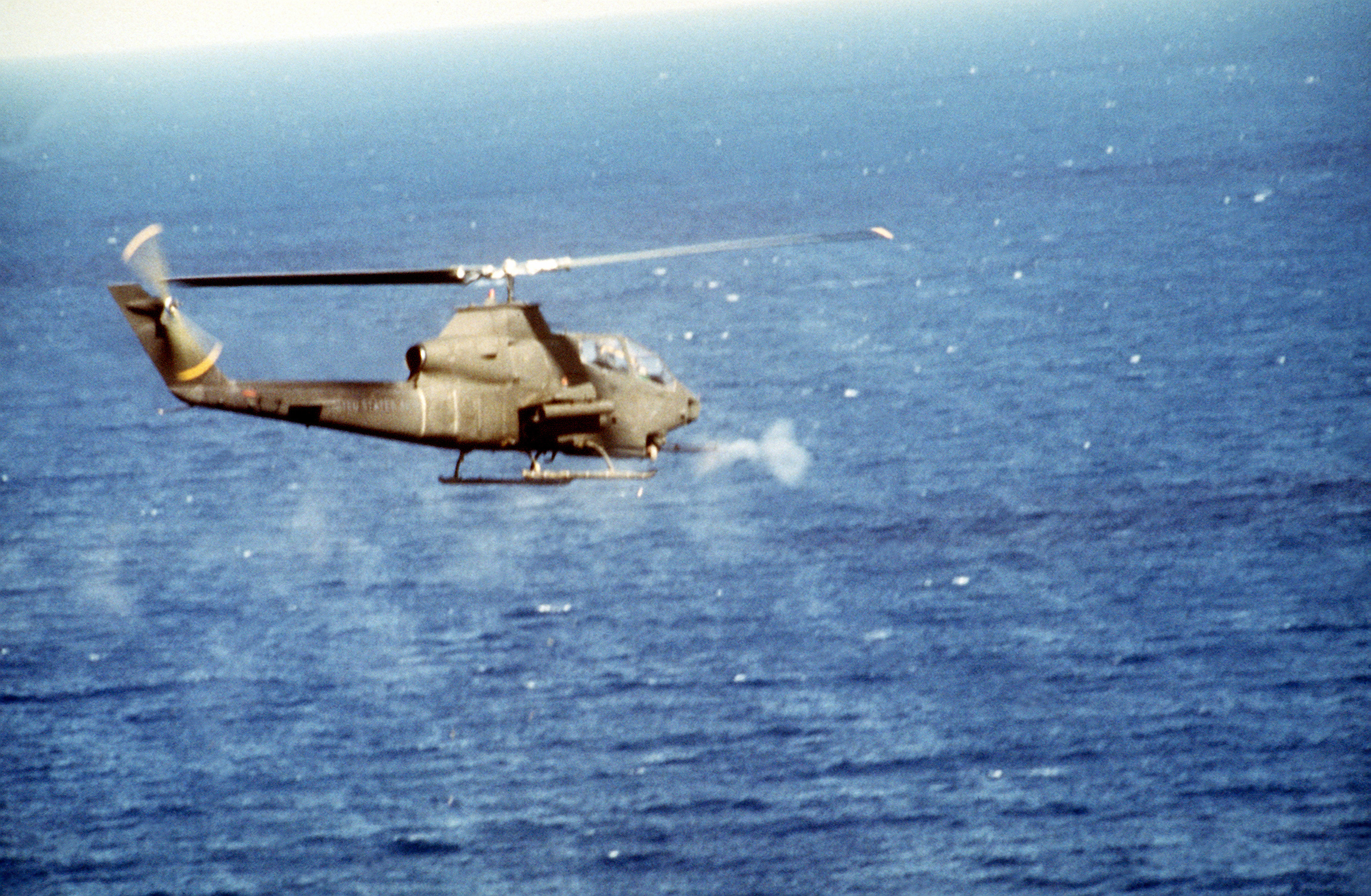 A U.S. Army Bell AH-1S Cobra helicopter firing its 20 mm cannon during a mission in support of "Operation Urgent Fury" on 25 October 1983.